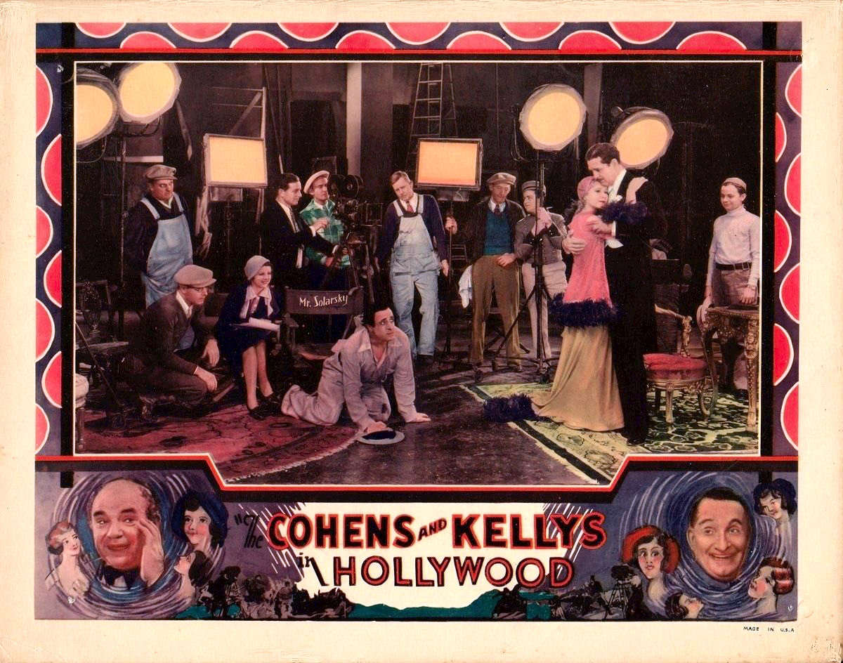 Lobby card from the American comedy film The Cohens and Kellys in Hollywood (1932).